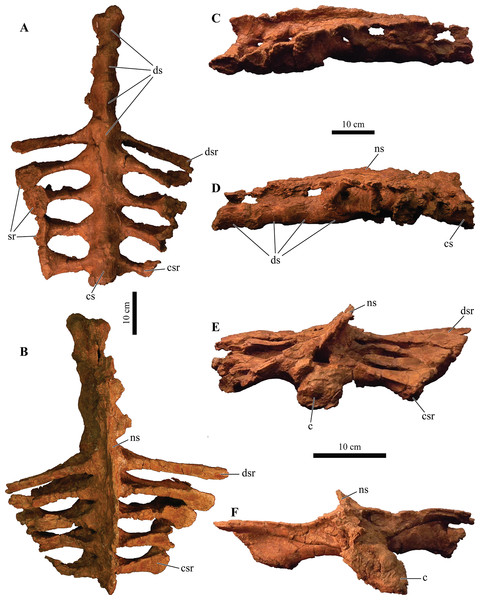 Photographs of the sacrum, presacral rod, and caudosacral vertebrae of Akainacephalus johnsoni (UMNH VP 20202) in (A), ventral; (B), dorsal; (C), right lateral; (D), left lateral; (E), posterior; and (F), anterior views. Study sites: c, centrum; cs, caudosacral vertebra; csr, caudosacral ribs; ds, dorsosacral vertebrae; dsr, dorsosacral ribs; ns, neural spine; sr, sacral ribs.